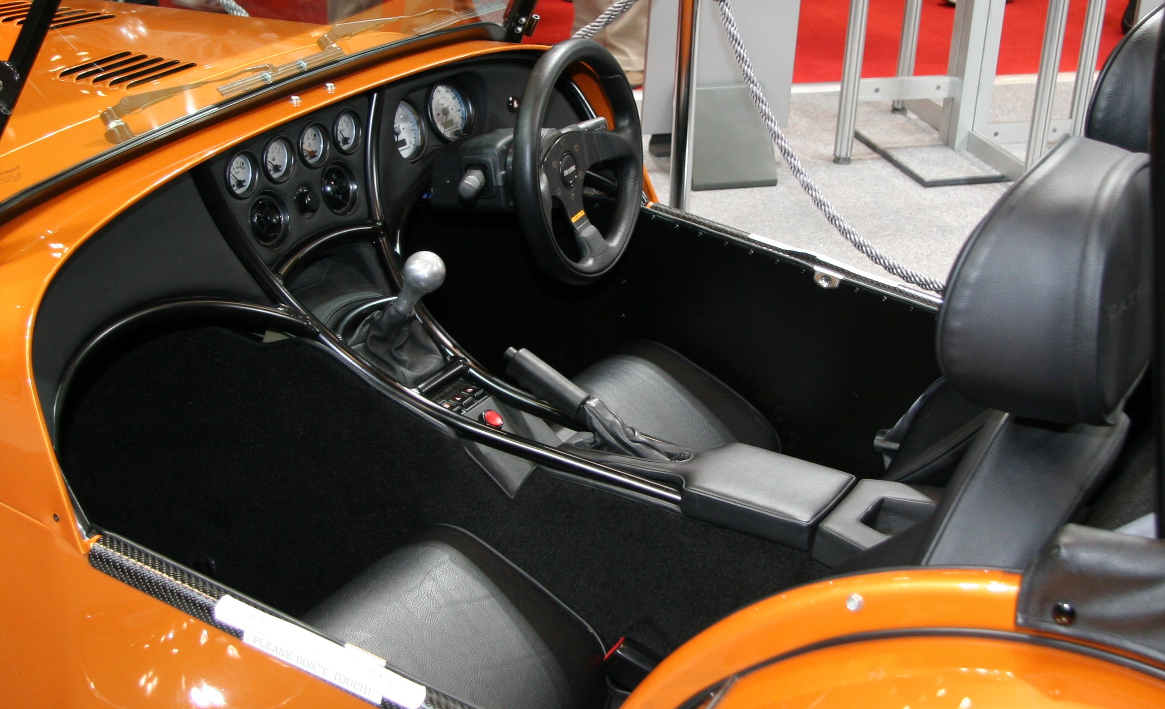 Caterham CSR